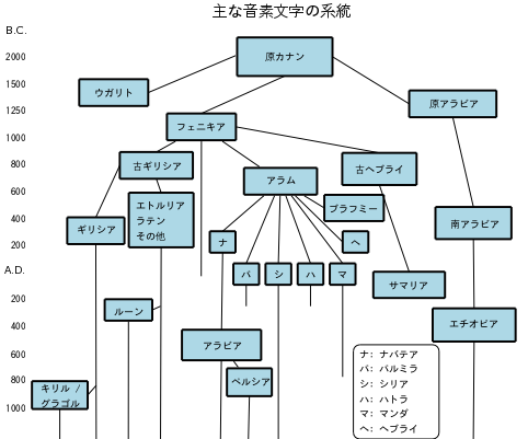 History of alphabets Historia alfabetu. 主な音素文字の系統 Re-traced and translated by me, User:Hatukanezumi, from Image:Historia Alfabetu Polish version.jpg 22:36, 17 November 2006 created by User:Piotrus.